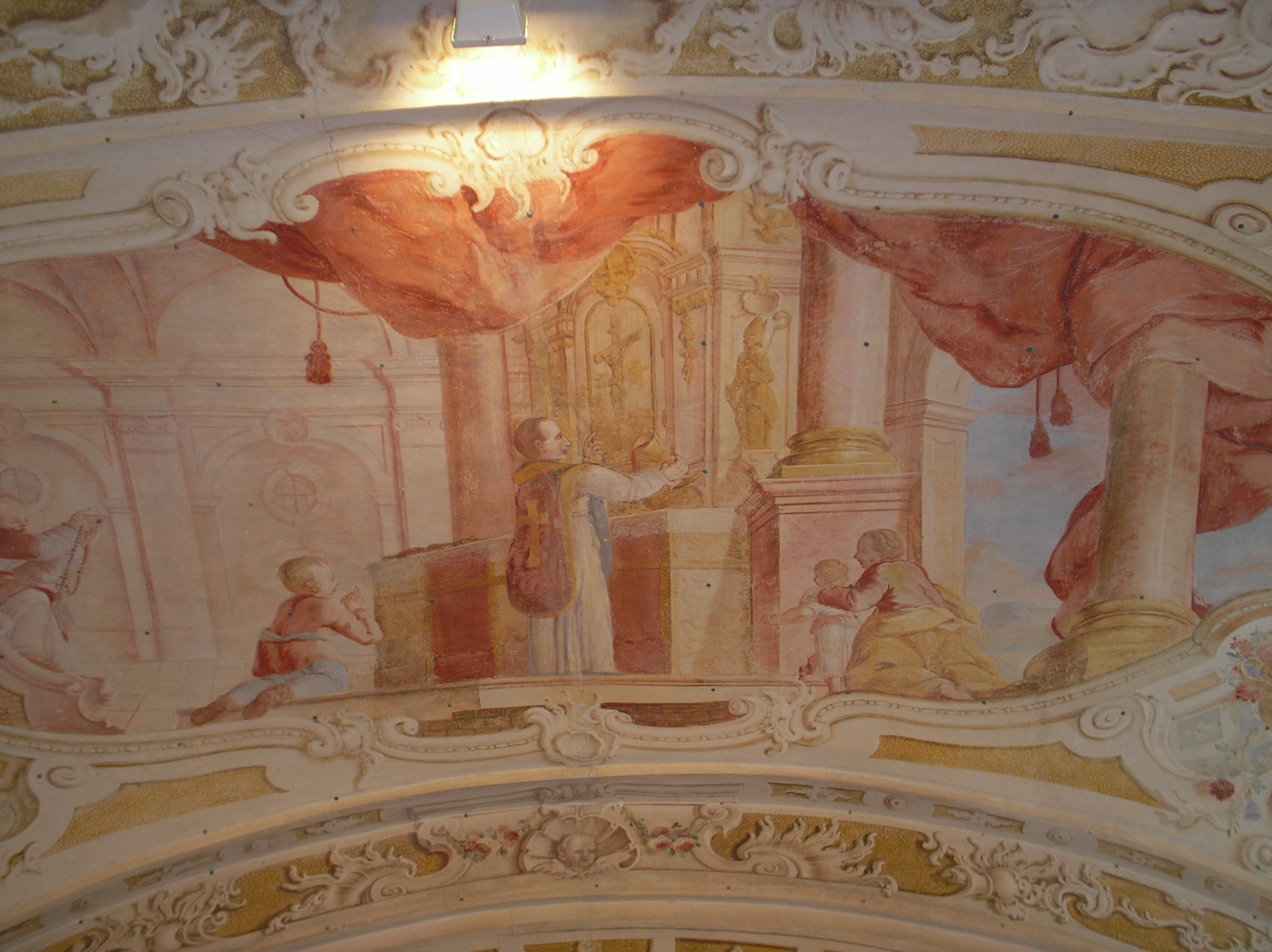 Fresco by Michael Peck, 1753, Chapel of Holly Cross, City of Ludbreg, Croatia